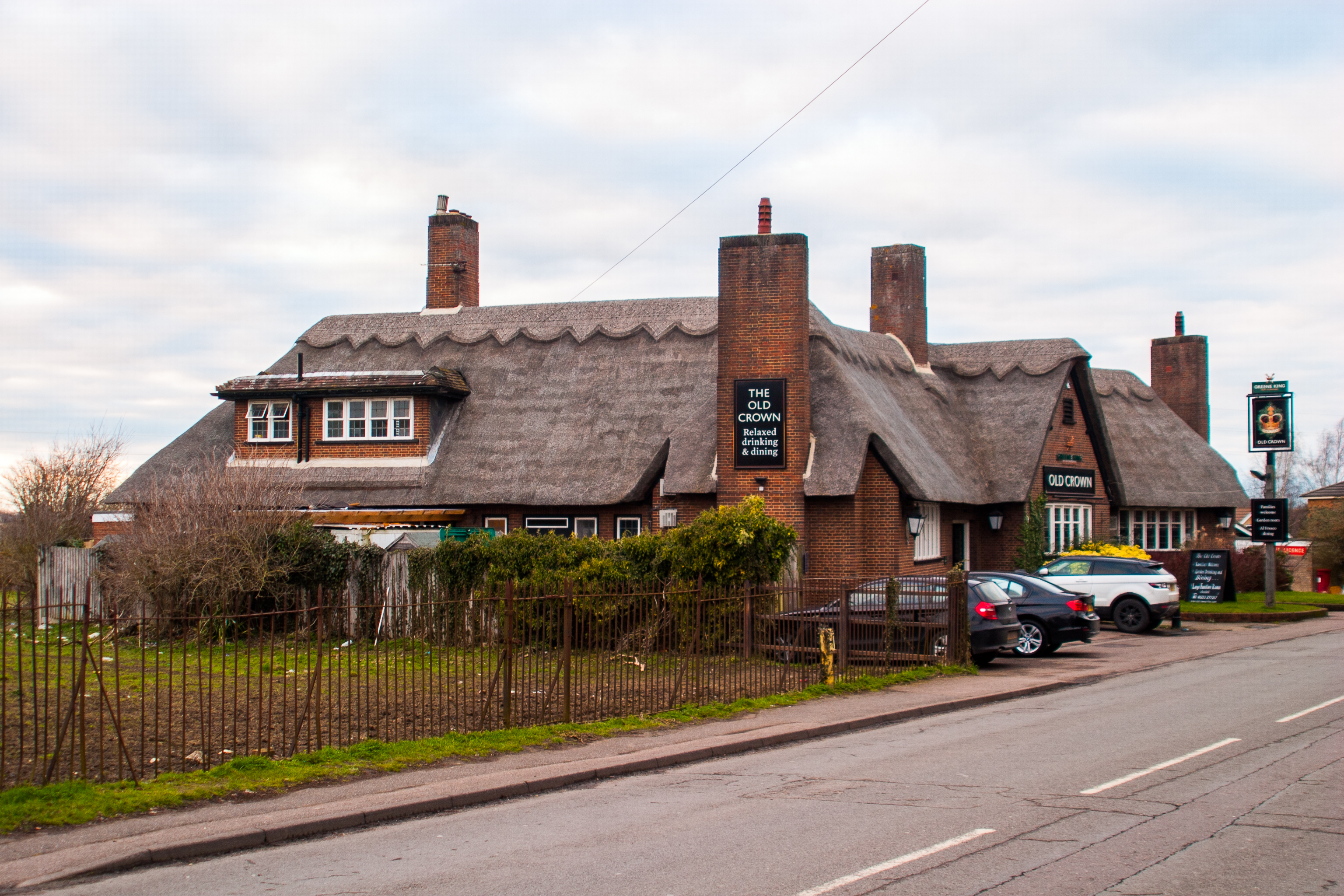 A photo of The Old Crown, one of the two current pubs in Girton, on the corner of High Street and Dodford Lane